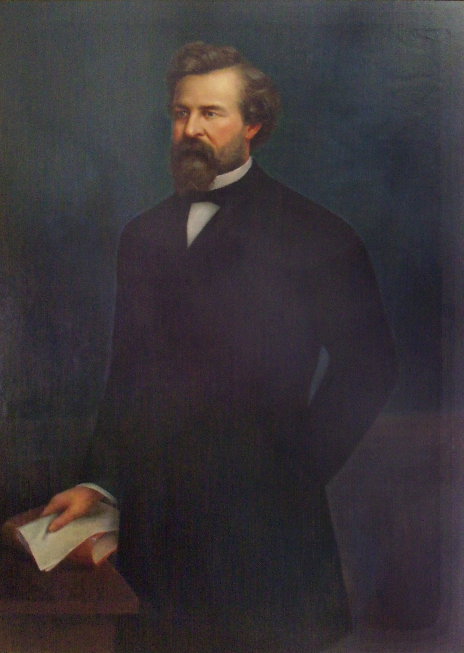 a painting of Ohio politician and general George Wythe McCook (1821-1877) that hangs in the Daniel McCook House in Carrollton, Ohio, after being moved from the Jefferson County Courthouse in Steubenville, Ohio. The painting is by Charles P. Filson (1860-1937), as mentioned in Doyle, Joseph B. (1910) 20th Century History of Steubenville and Jefferson County, Ohio, 1, Chicago: Richmond-Arnold Publishing, p. 640.